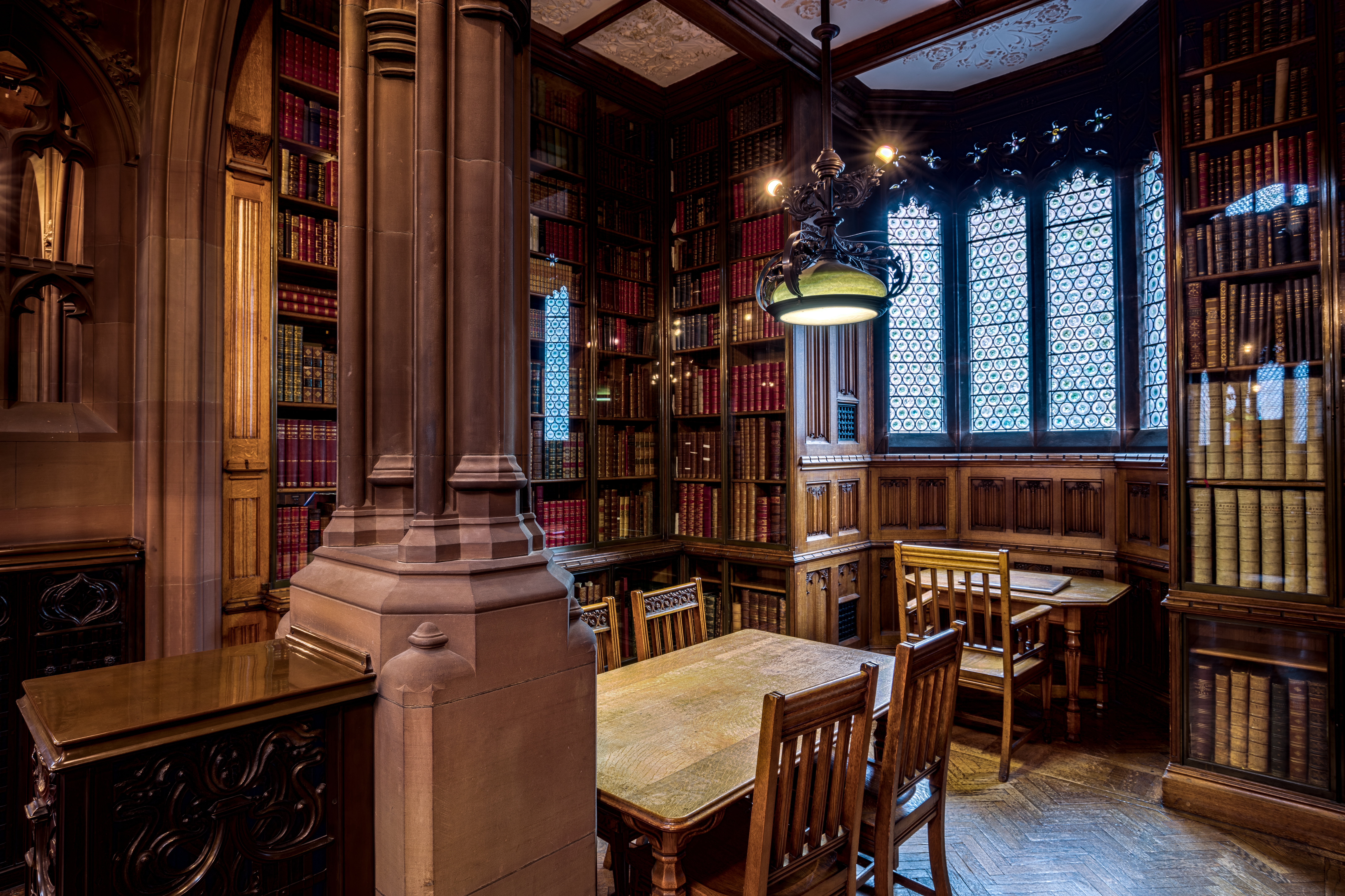 Here is an hdr photograph taken of a study area inside The John Rylands Library. Located in Manchester, Greater Manchester, England, UK.